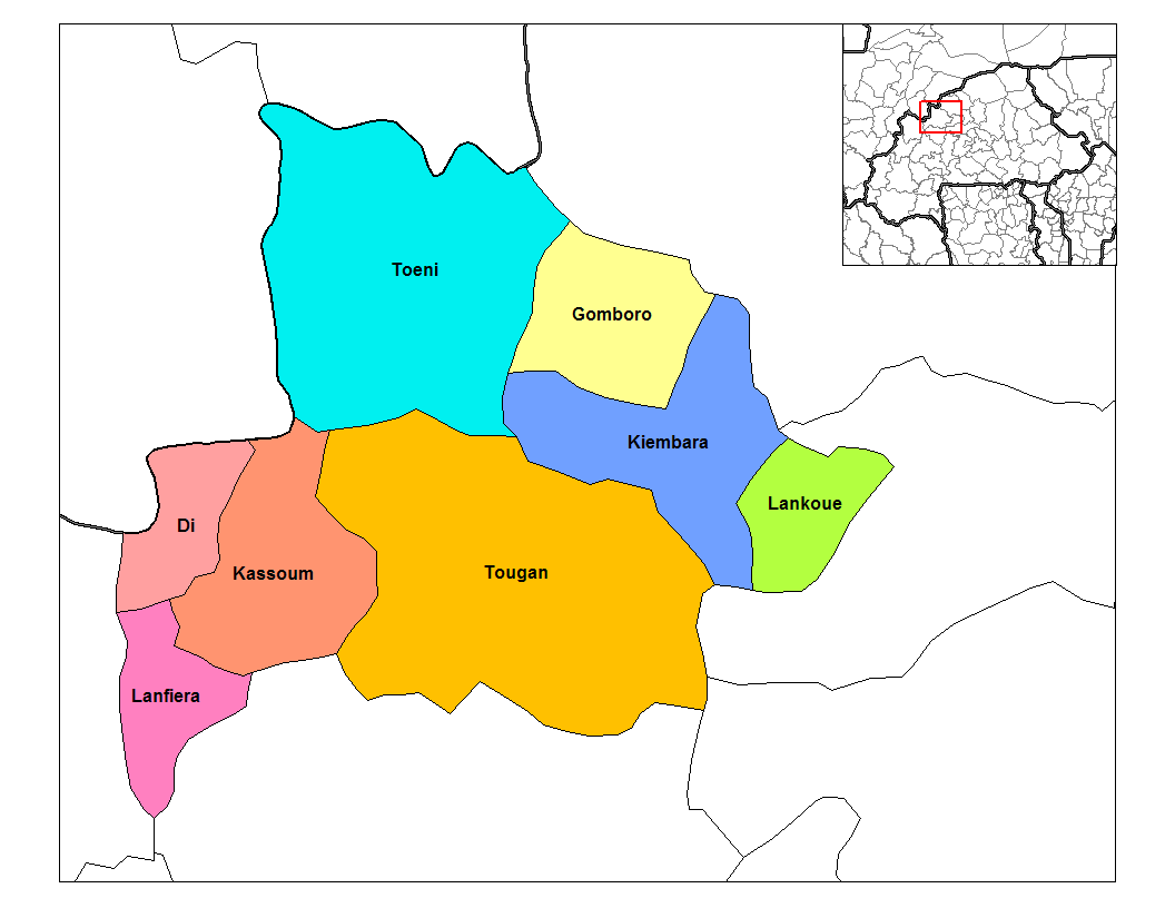 This map has been uploaded by Osiris fancy from to enable the Wikimedia Atlas of the World. Original uploader to was Rarelibra. Osiris fancy is not the creator of this map. Licensing information is below. Map of the departments of Sourou province in Burkina Faso. Created by Rarelibra 03:37, 30 September 2006 (UTC) for public domain use, using MapInfo Professional v8.5 and various mapping resources.